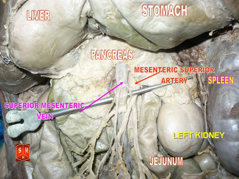 Superior mesenteric vein